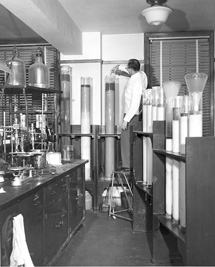 website: organisation: FDA A chemist is shown using column chromatographic apparatus in the mid-1950s to separate constituents in a coal tar color analysis.